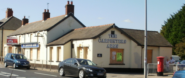 Former Carpenters Arms, Rumney 751 Newport Road, Rumney. A sold sign on the Newport Road side of the building indicates better times ahead for this boarded-up building, formerly The Carpenters Arms.